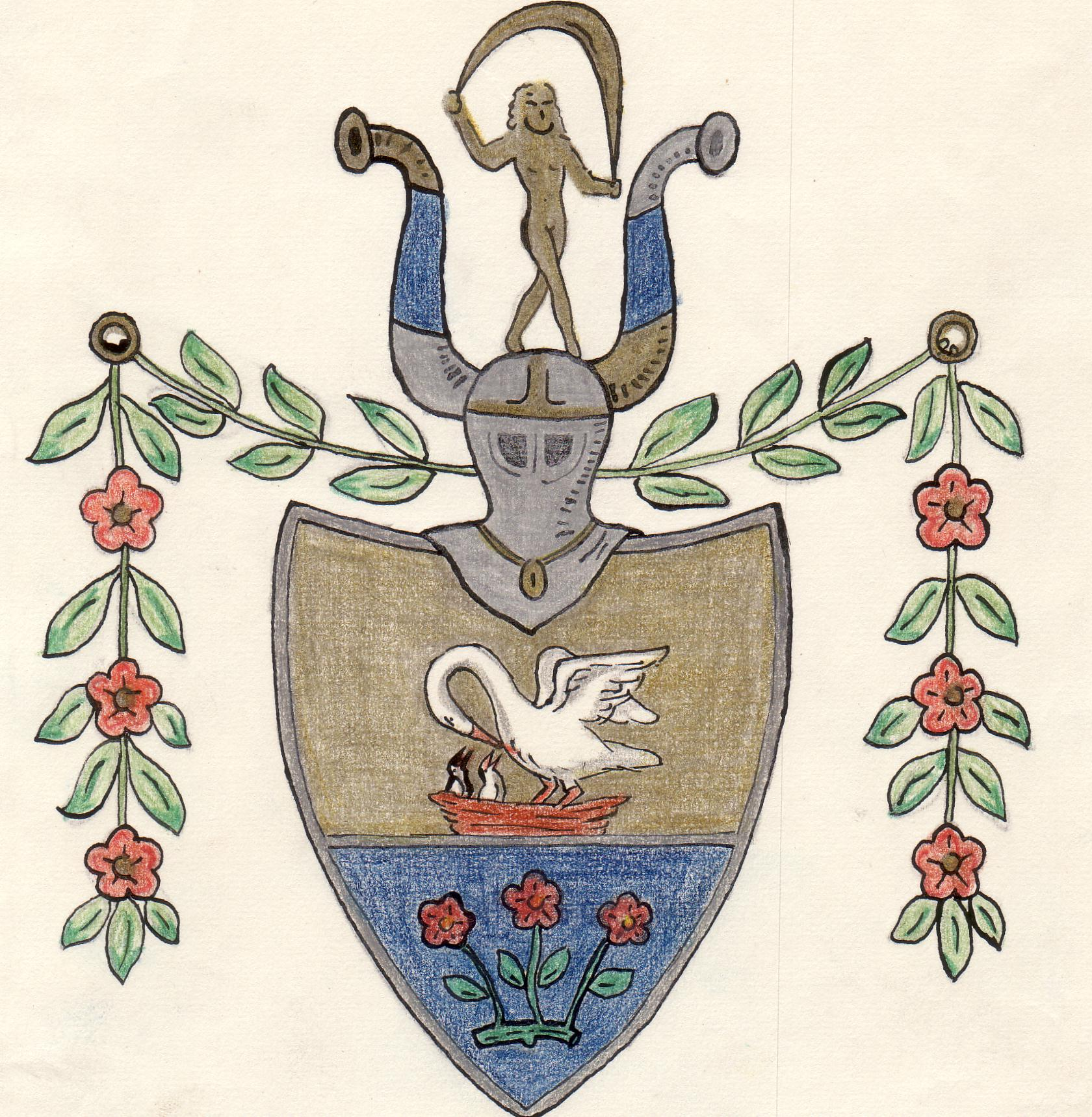 Våpenskjold for Jørgen Wright Cappelen II (1857-1934)